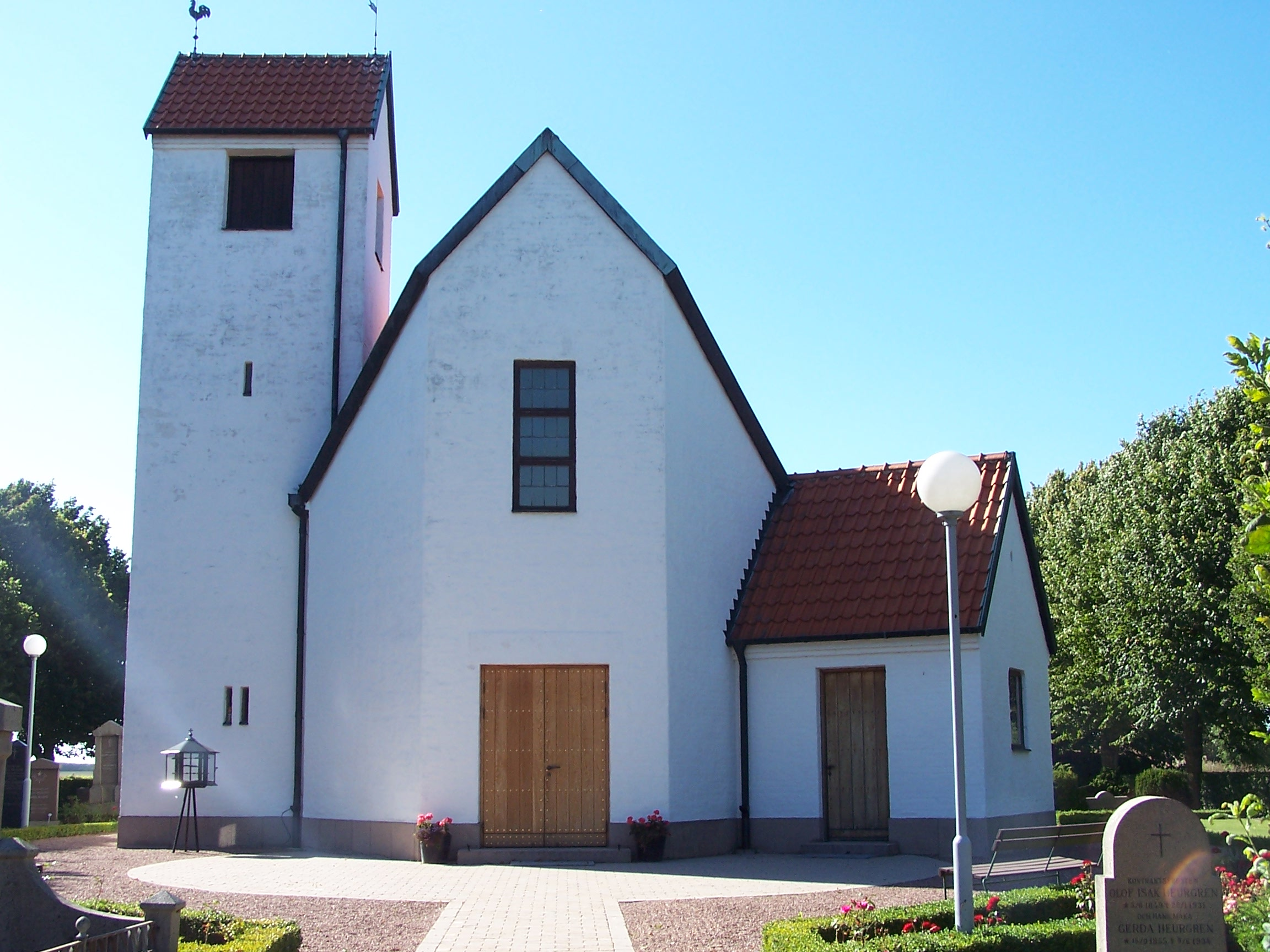 Källs-Nöbbelövs kyrka - Exterior from east.